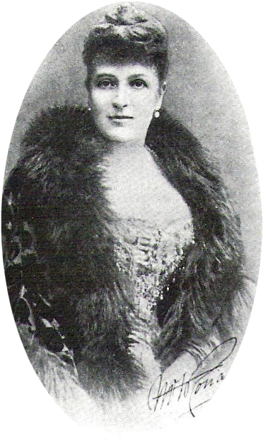 Victorian postcard circa 1869. Printed in and scanned from